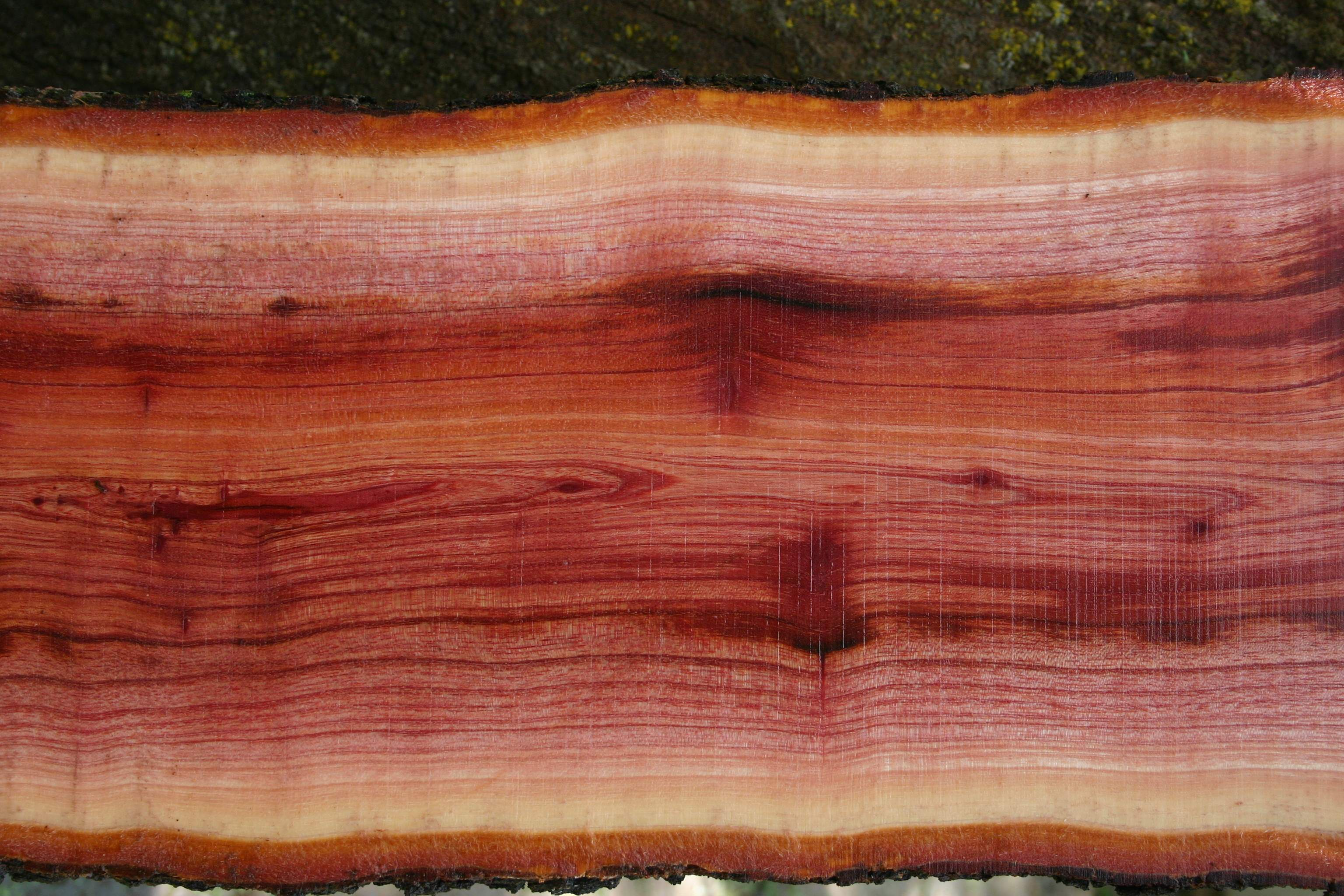 Freshly-cut plank of Cedrela toona, Honeydew, Johannesburg